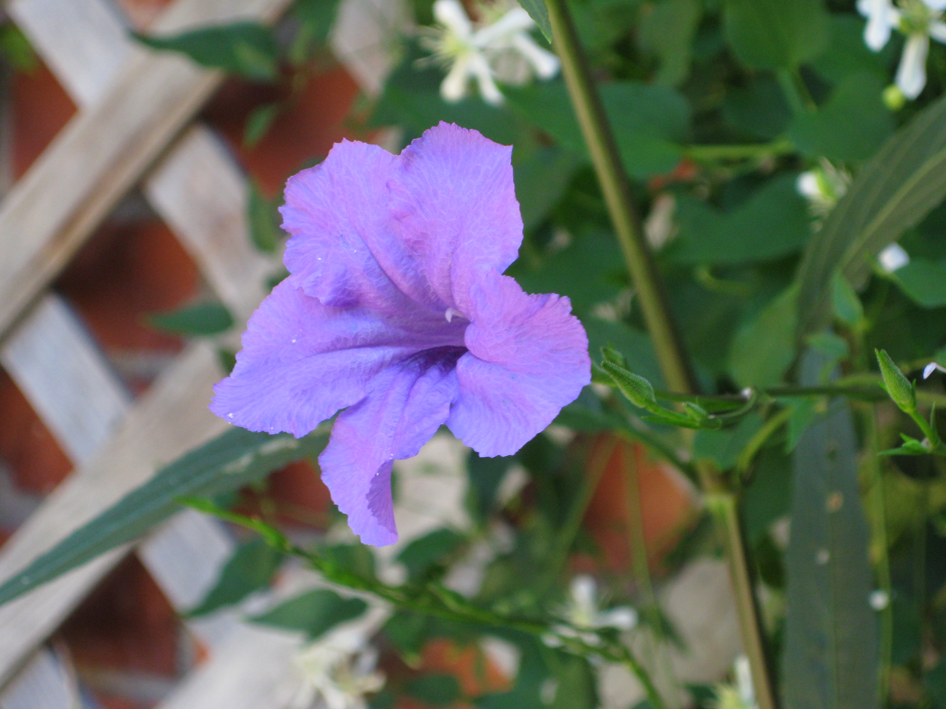 Ruellia angustifolia, "Britton's wild petunia". This specimen is growing in my mother's backyard garden in Arlington, TX